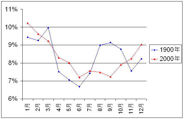 Rate of monthly death in Japan